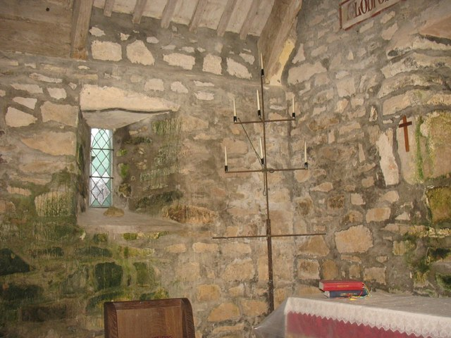 Lepers' Window - Ffenestr y Gwahanglwyfusion, Eglwys Beuno Sant St Beuno (d.642?)was a reputed healer as well as an establisher of churches. In the Middle Ages, lepers came to the church at Pistyll looking for a cure. These were housed in a hospice set up at Cae Hosbis Pennla, the main body of pilgrims enroute to Bardsey being accommodated on a separate site on the Cefnedd hill behind the church. During Mass, the lepers stood outside the north-western end of the church and at communion time received the Host through this small window.